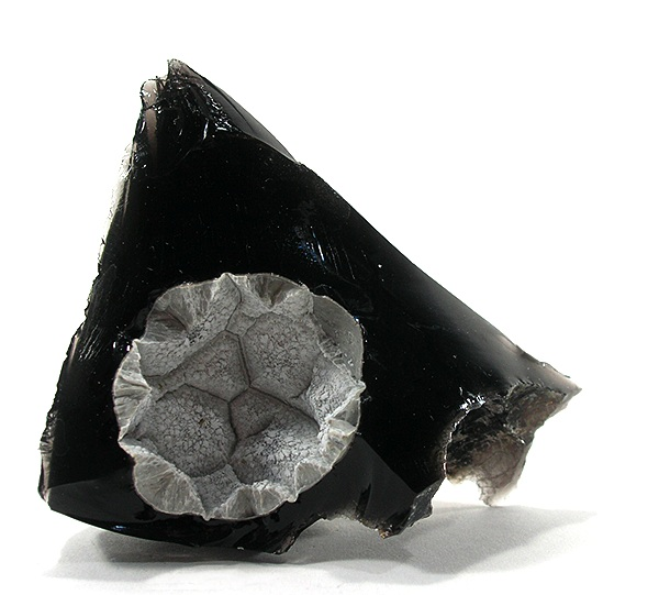 Cristobalite, Fayalite Locality: Canyon Butte occurrence (Couger Butte), Canyon Butte, Siskiyou County, California, USA (Locality at ) This example of cristobalite on obsidian, created by devitrification of the obsidian, exhibits a large vesicle 2.5 cm across. 6 x 5.4 x 2.5 cm